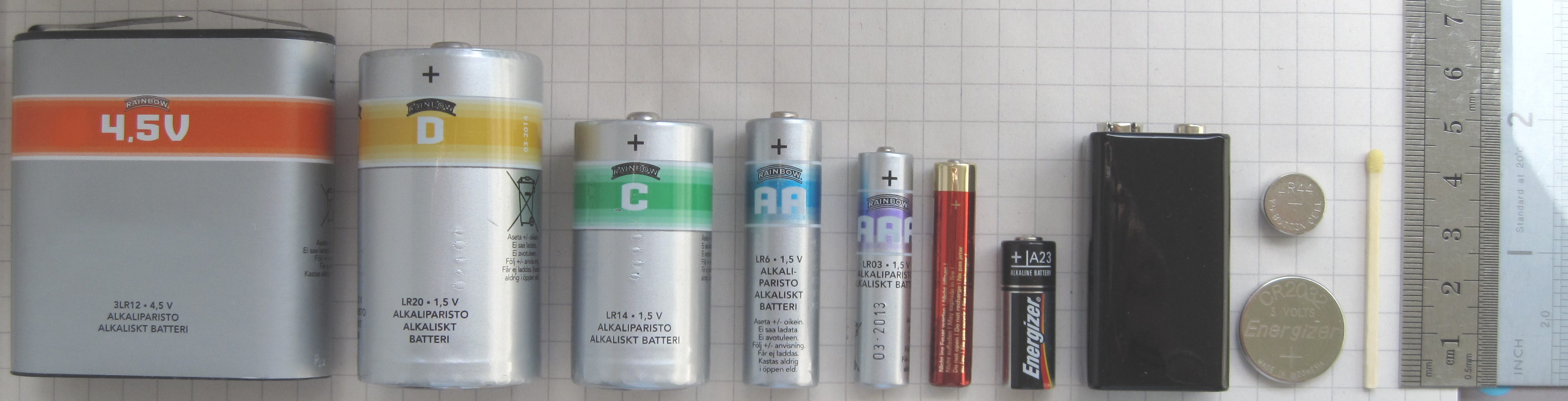 A side by side comparison of several batteries, with ruler and matchstick for scaling purposes. In order the batteries are: Sawyer Battery 4.5 V (3LR12) battery D (LR20) cell C (R14) cell AA (LR6) cell AAA (LR03) cell AAAA (LR8D425) cell A23 (8LR932) battery 9-Volt (6LR61) battery CR2032 battery LR44 battery Matchstick, silver cm ruler and a blue inch ruler used for scale. The grid in the background is 7mm square.